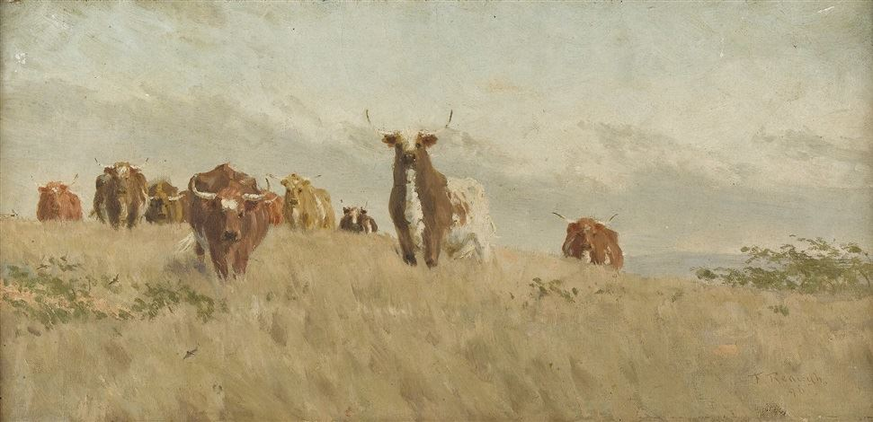 Breezy Morning